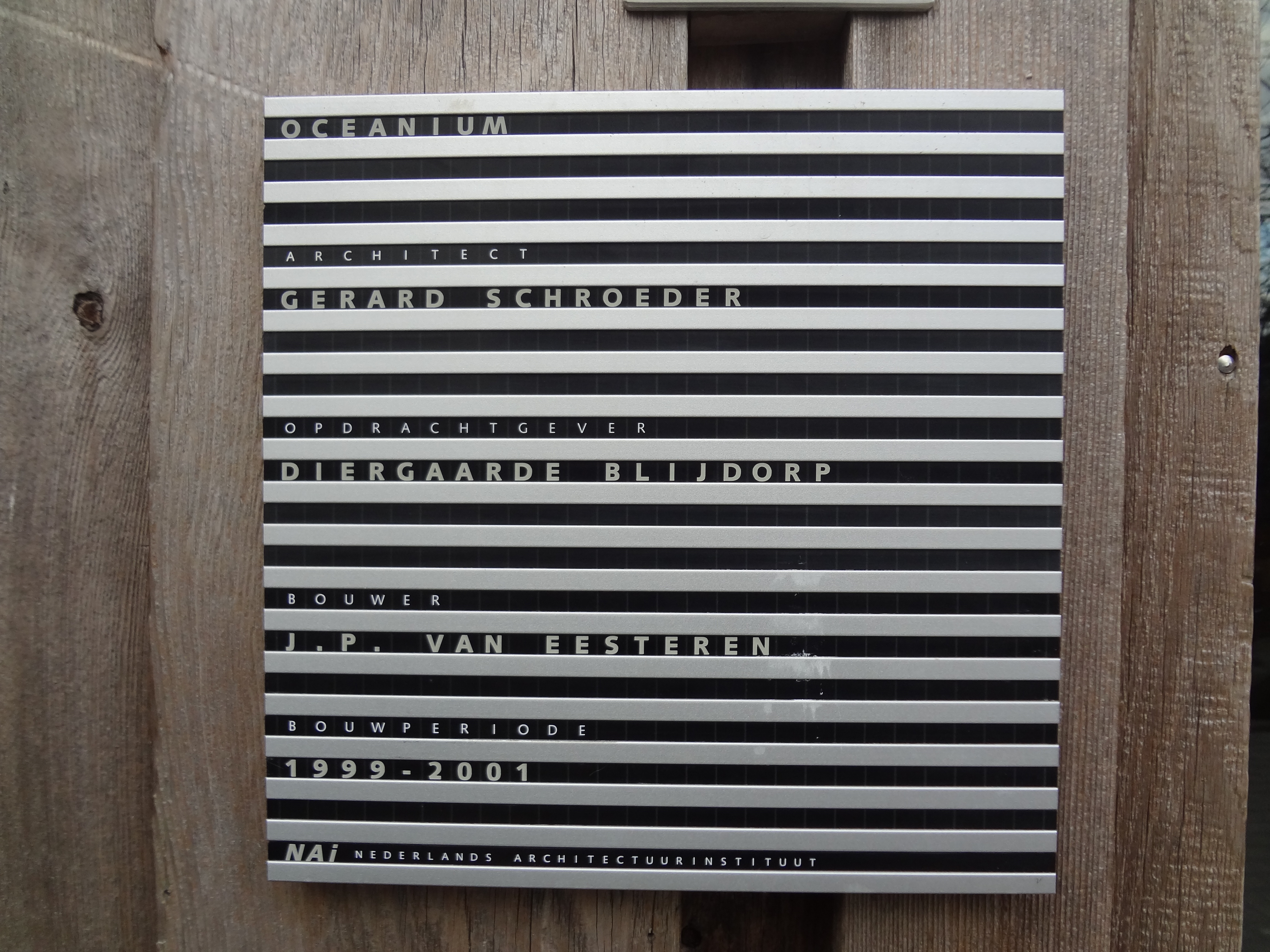 NAi architectuurplaquette - Oceanium - Diergaarde Blijdorp - Rotterdam